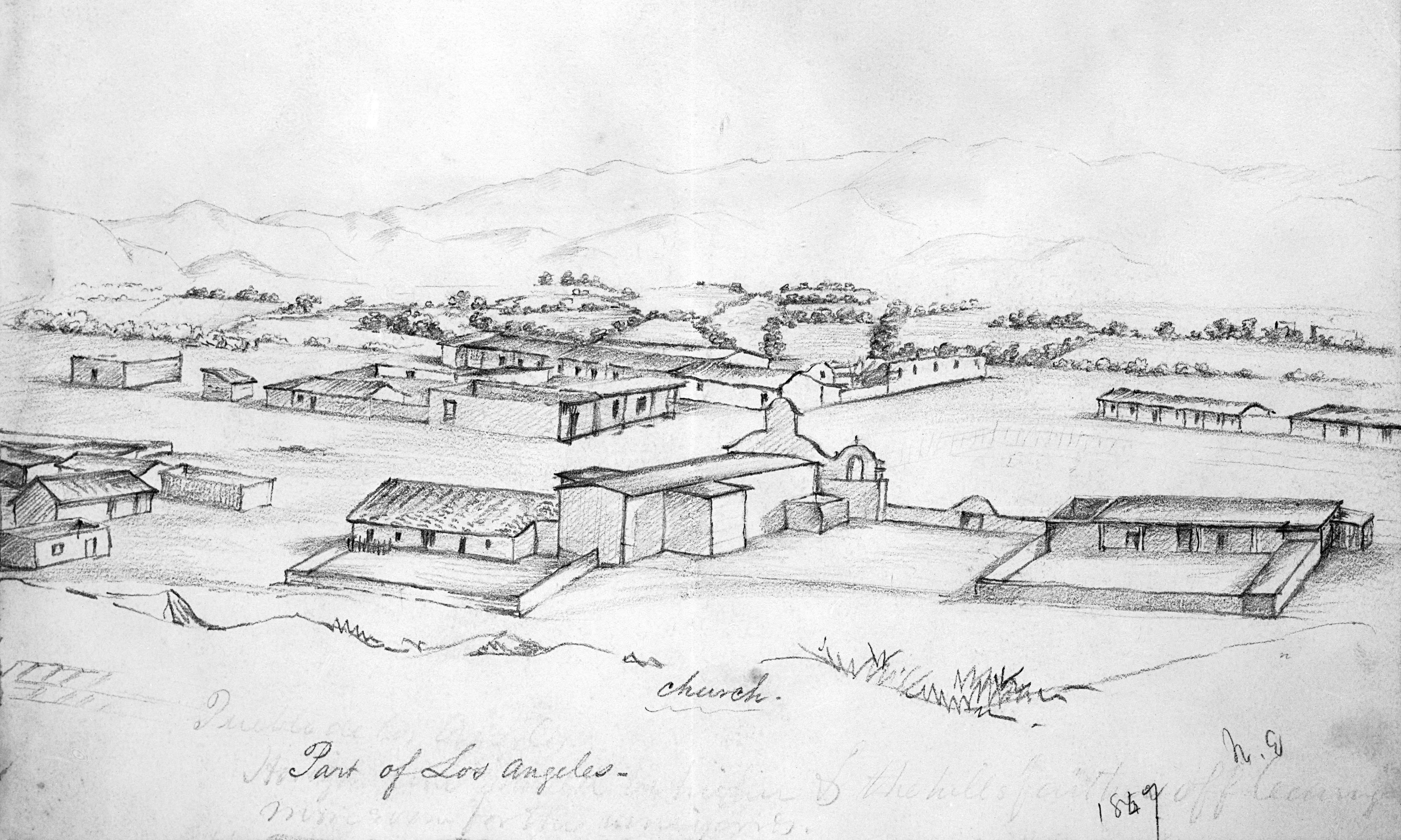 Drawing by William Rich Hutton depicting a section of Los Angeles, ca.1847 Photograph of a drawing by William Rich Hutton depicting a section of Los Angeles, ca.1847. A collection of squat adobe buildings are depicted arranged around a central clearing to the right. Along the bottom edge of this, the words "Church" and "Part of Los Angeles" can be seen clearly, while fading or erased writing is faintly visible beneath it. Hills are depicted in the background, along with a network of tree rows. Generally considered to be the oldest extant drawing of the city.[1]